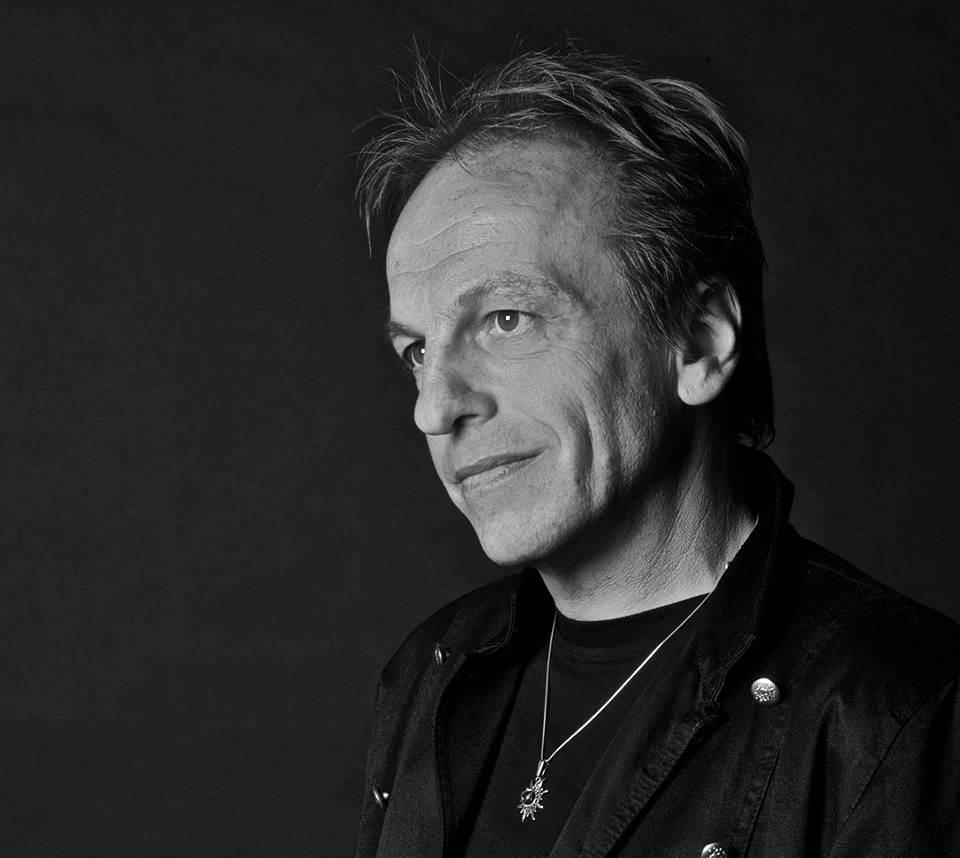 Andy Sears, musician, 2013